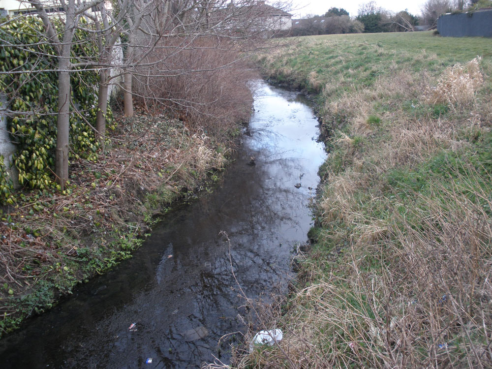 View of the River Poddle, Dublin, just a few metres downstream of Templeville Road, the river having crossed under the road behind the camera. The river is flowing away from the camera, to the northeast. It bends to the left in the foreground and to the right in the background. Houses at the south end of Whitehall Park are visible in the centre background. This location is near the meeting of four townlands. The camera is in Templeogue, divided by the river from Whitehall in the left foreground. Whitehall meets Perrystown only a few metres downstream, on the opposite (north) river bank. Templeogue meets Kimmage on the near (south) river bank, in the far background, where the river has turned right. See also River-Poddle-2010-02-19b.jpg and River-Poddle-2010-02-19c.jpg.